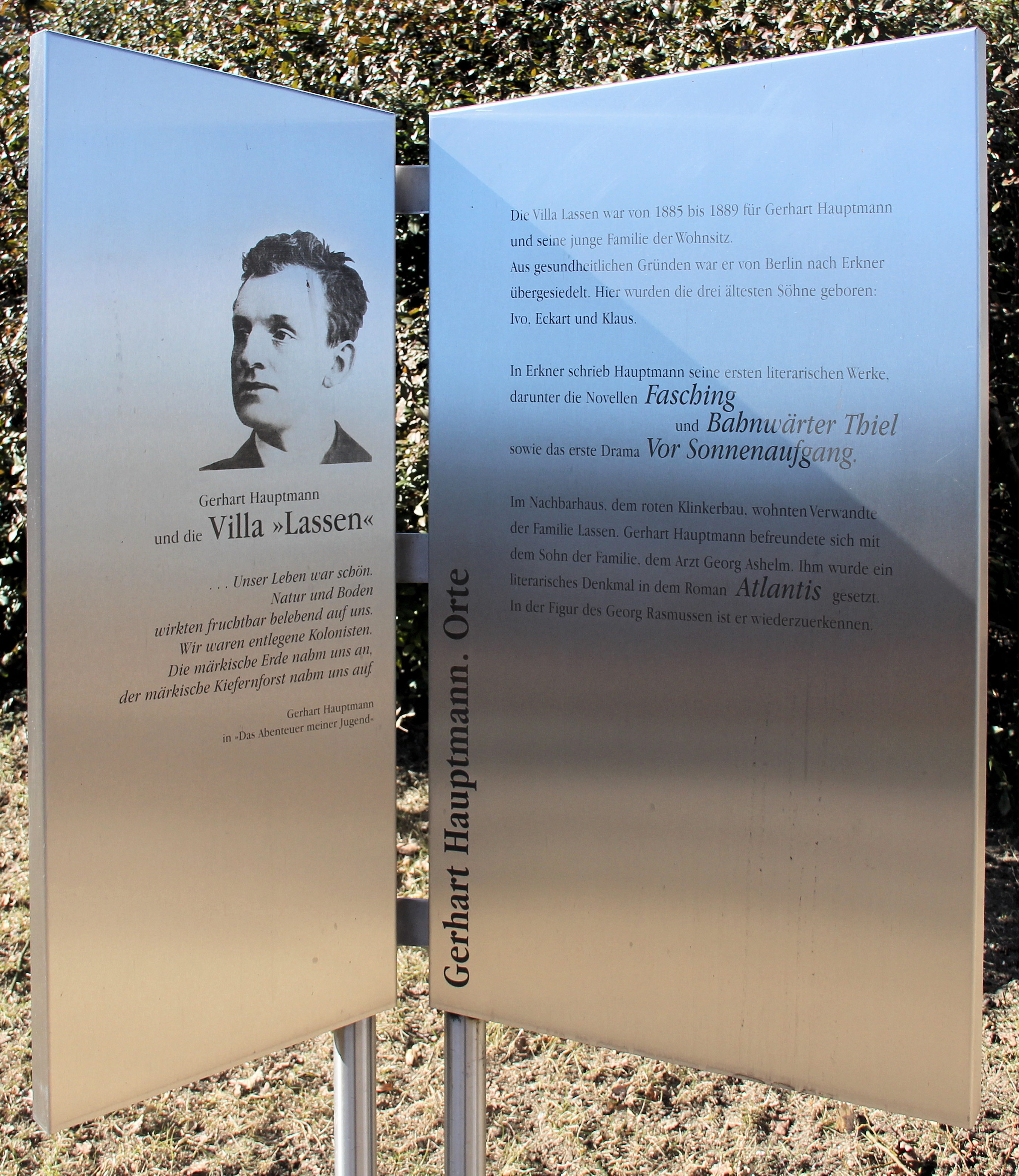 Memorial plaque, Gerhart Hauptmann, Gerhart-Hauptmann-Straße 1, Erkner, Germany Koordinate:52°25′7″N 13°45′17″E / 52.41861°N 13.75472°E